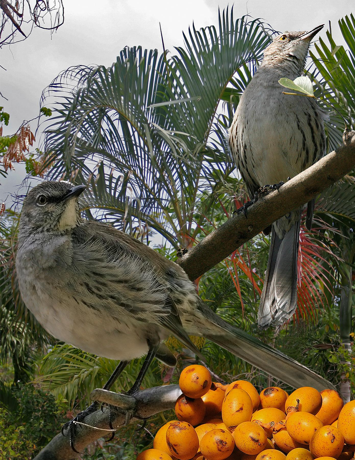 Bahama Mockingbird From The Crossley ID Guide Eastern Birds